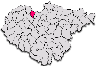 Map Salaj County Romania